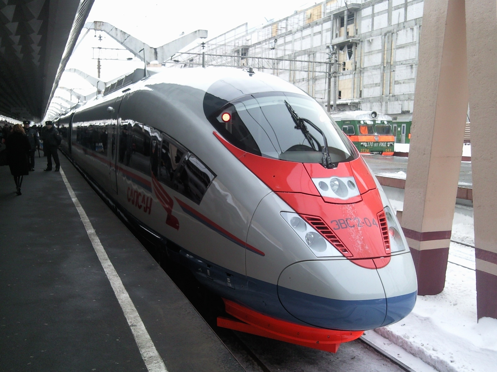 Siemens Velaro express at Moskovsky Railway Terminal in Saint Petersburg, Russia